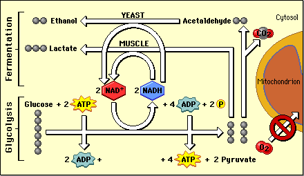 Alcohol fermentation process